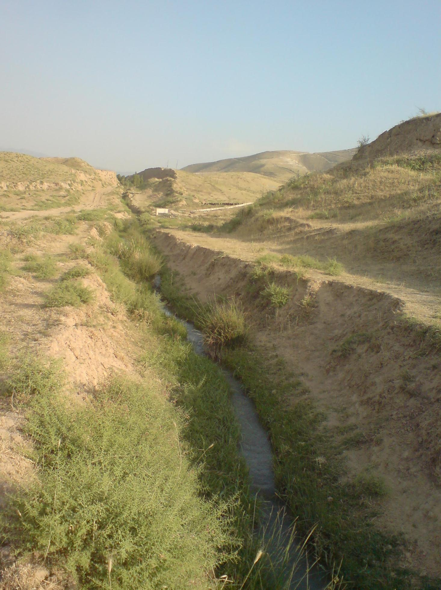 Almalyksay river (stream) near Kalmakyr mine, before Almalyk city, Tashkent region, Uzbekistan